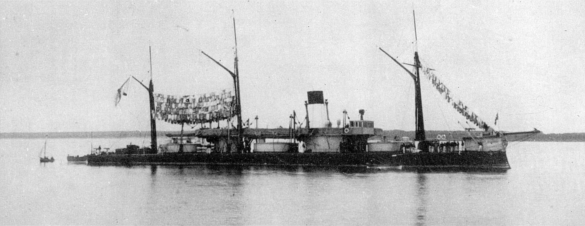 The Imperial Russian triple turret armoured frigate Admiral Greig.